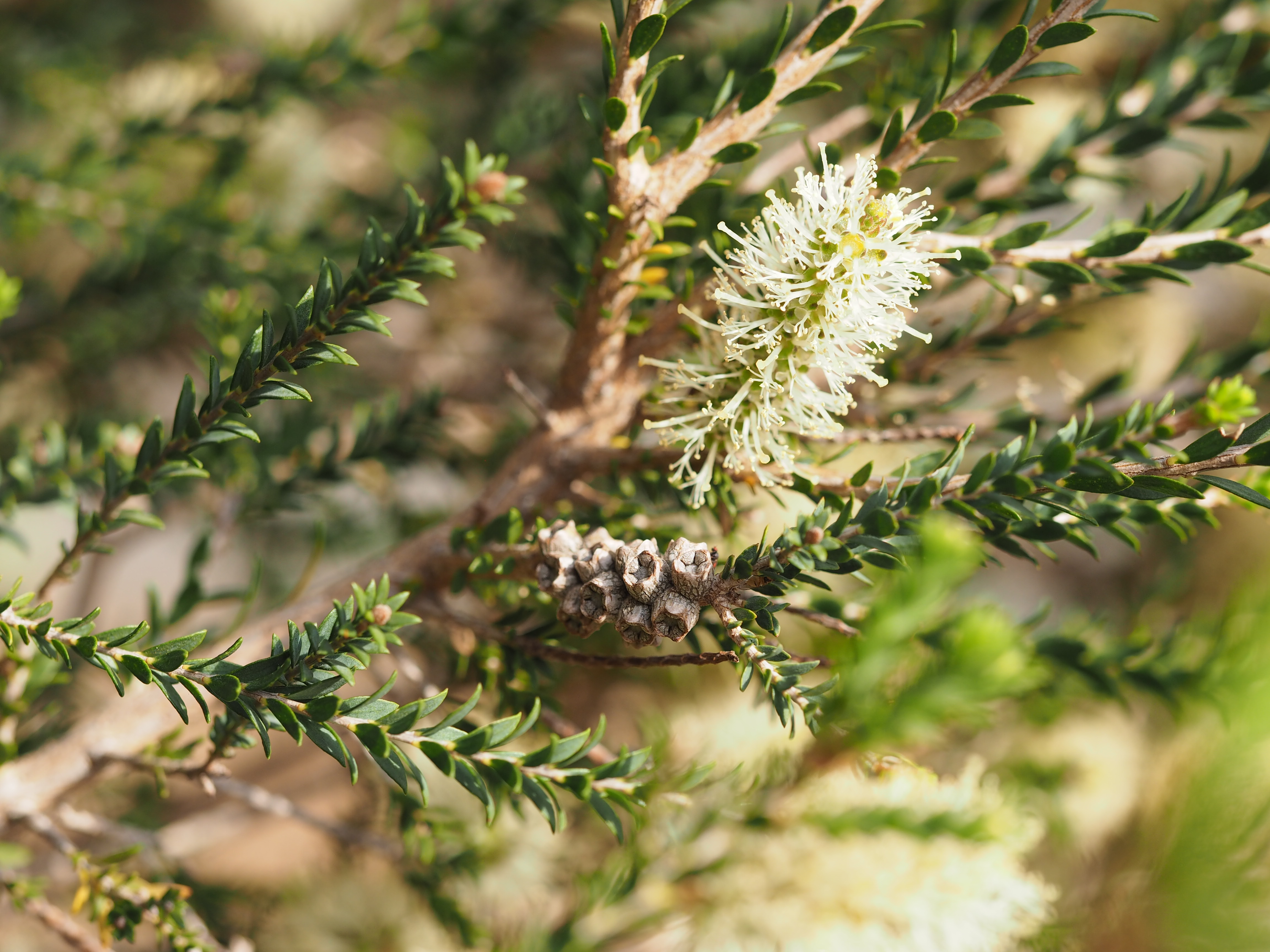 Melaleuca viminea growing on a roadside near Mount Barker